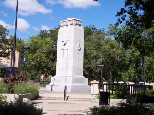 This is my photo, taken in Victoria Park, Regina.